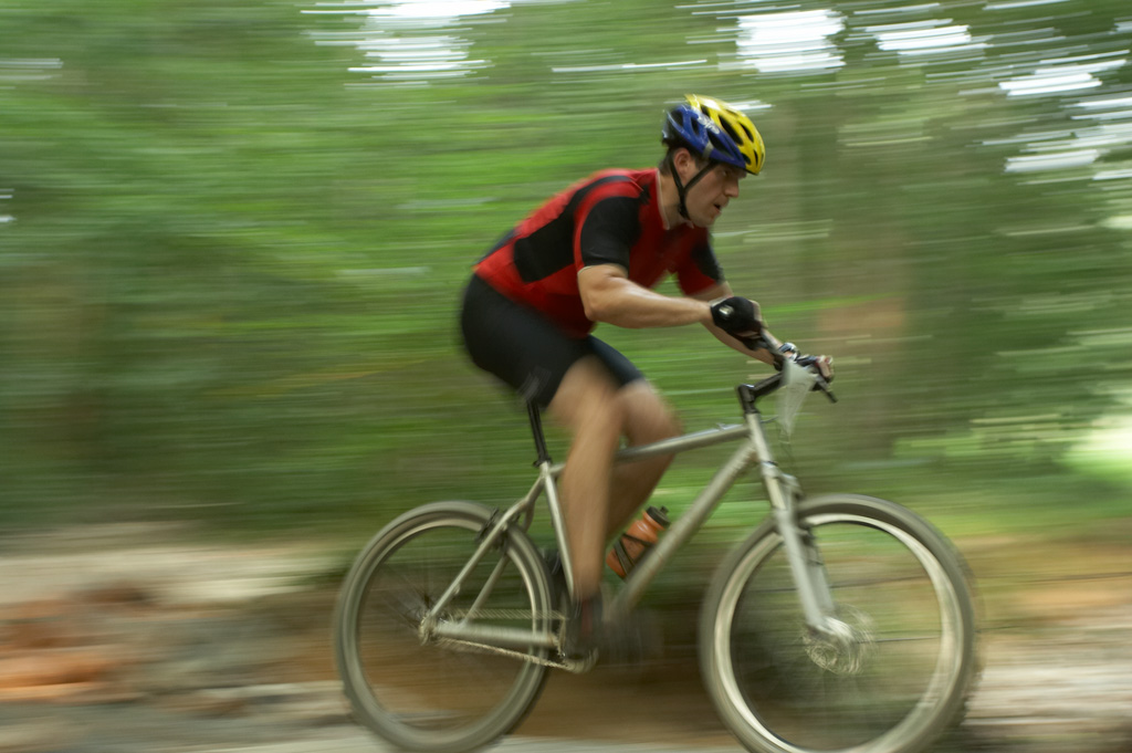 wednesdays at wakefield